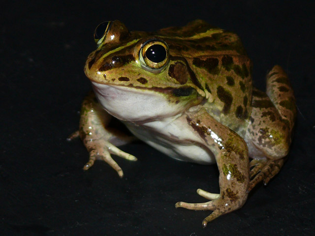 Rana porosa porosa, Tochigi pref, 2007